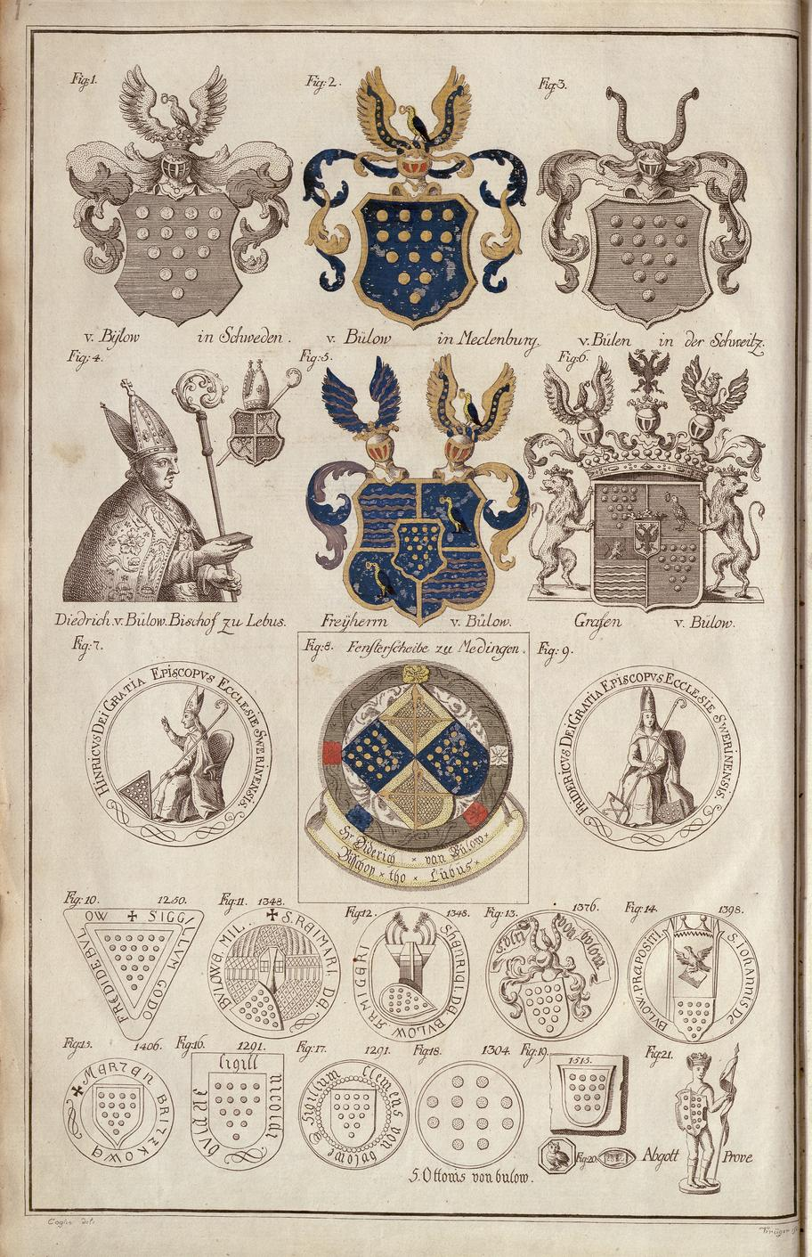 Plate with coats of arms of the von Bülow family